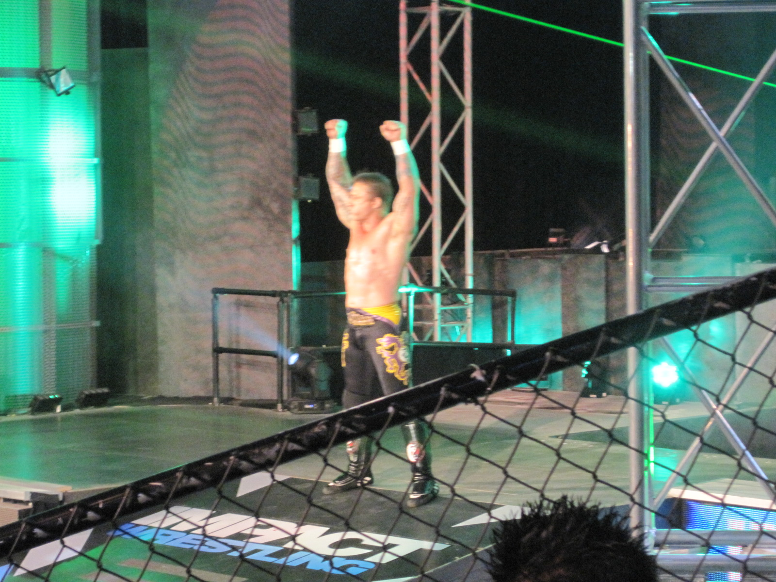 Impact Wrestling Taping. Monday, June 13, 2011 to air Thursday, June 16, 2011